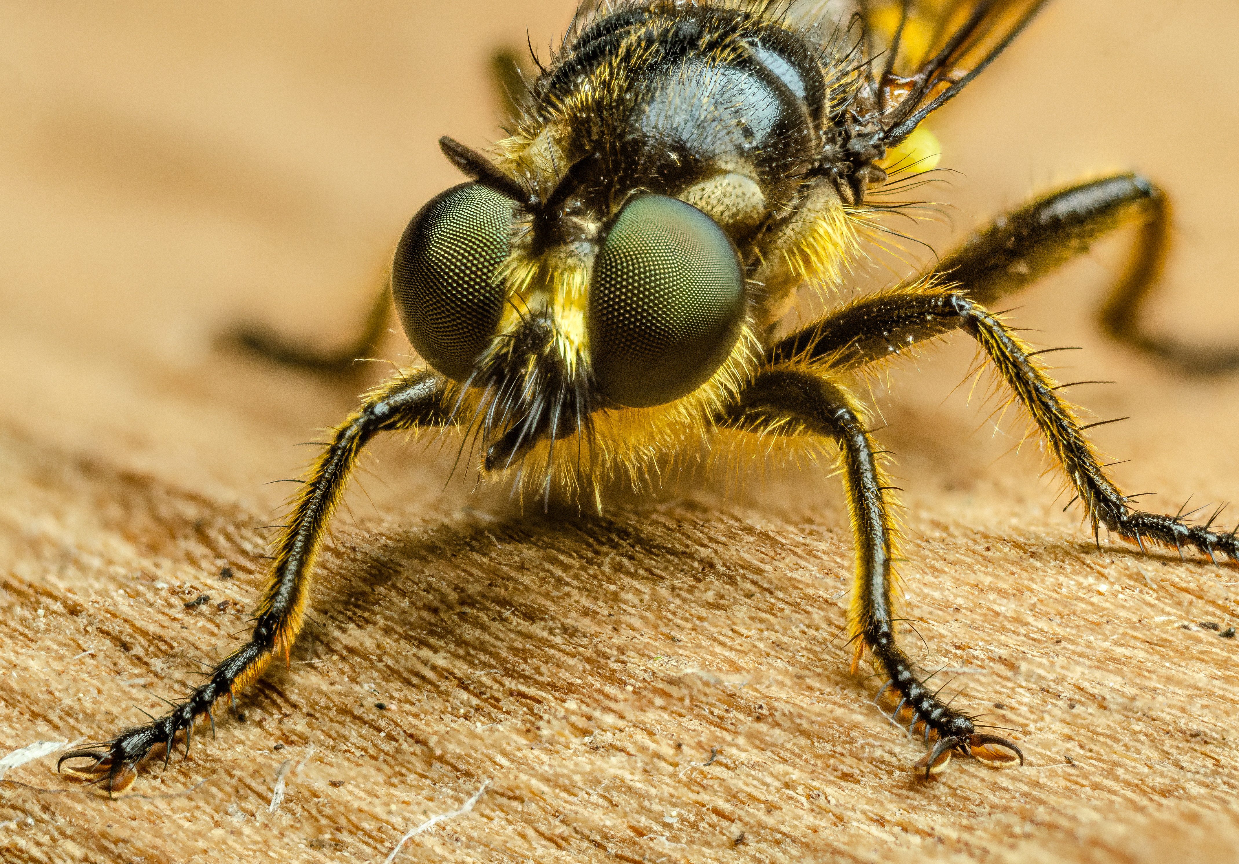 Choerades fimbriata, f, picture taken in Stuttgart, Germany. Thanks to the members of Entomologie.de for the identification. Focus stack of 12 images.